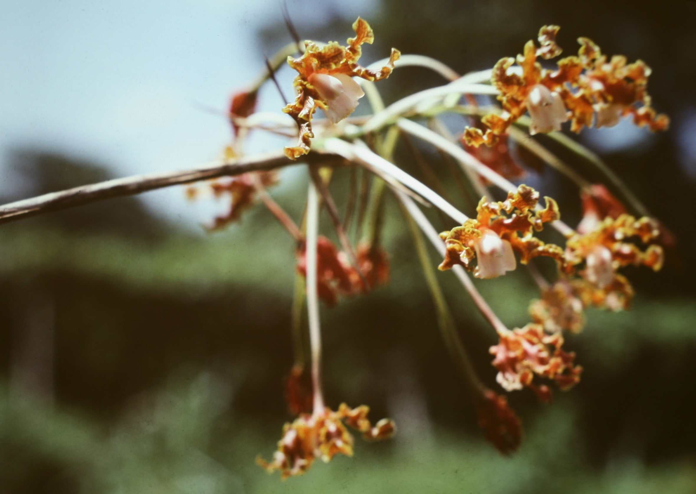 Laelia marginata (was Schomburgkia crispa or S. marginata). Inflorescence. Suriname.